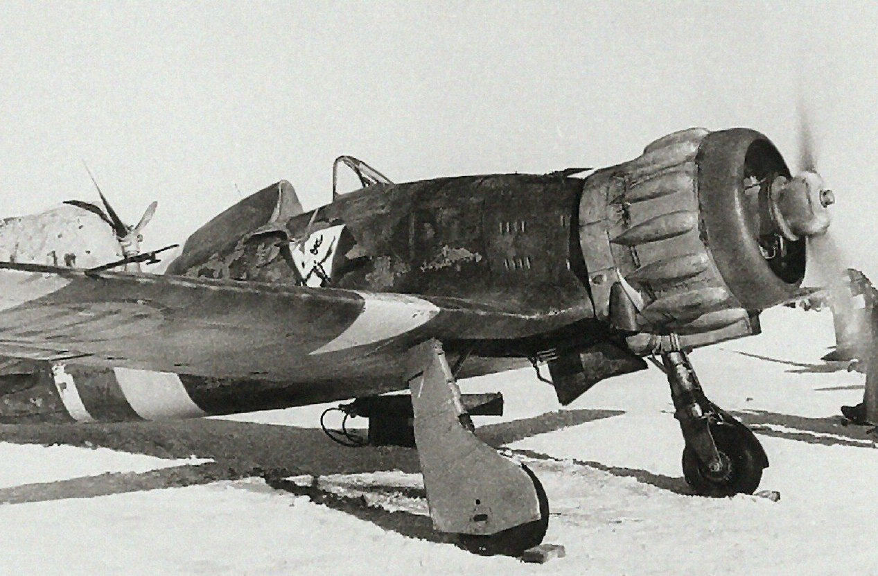 Macchi C.200 of the 369th Squadron 22nd Autonomous Fighter Group. Krivoj-Rog, Russian Front, September 1941